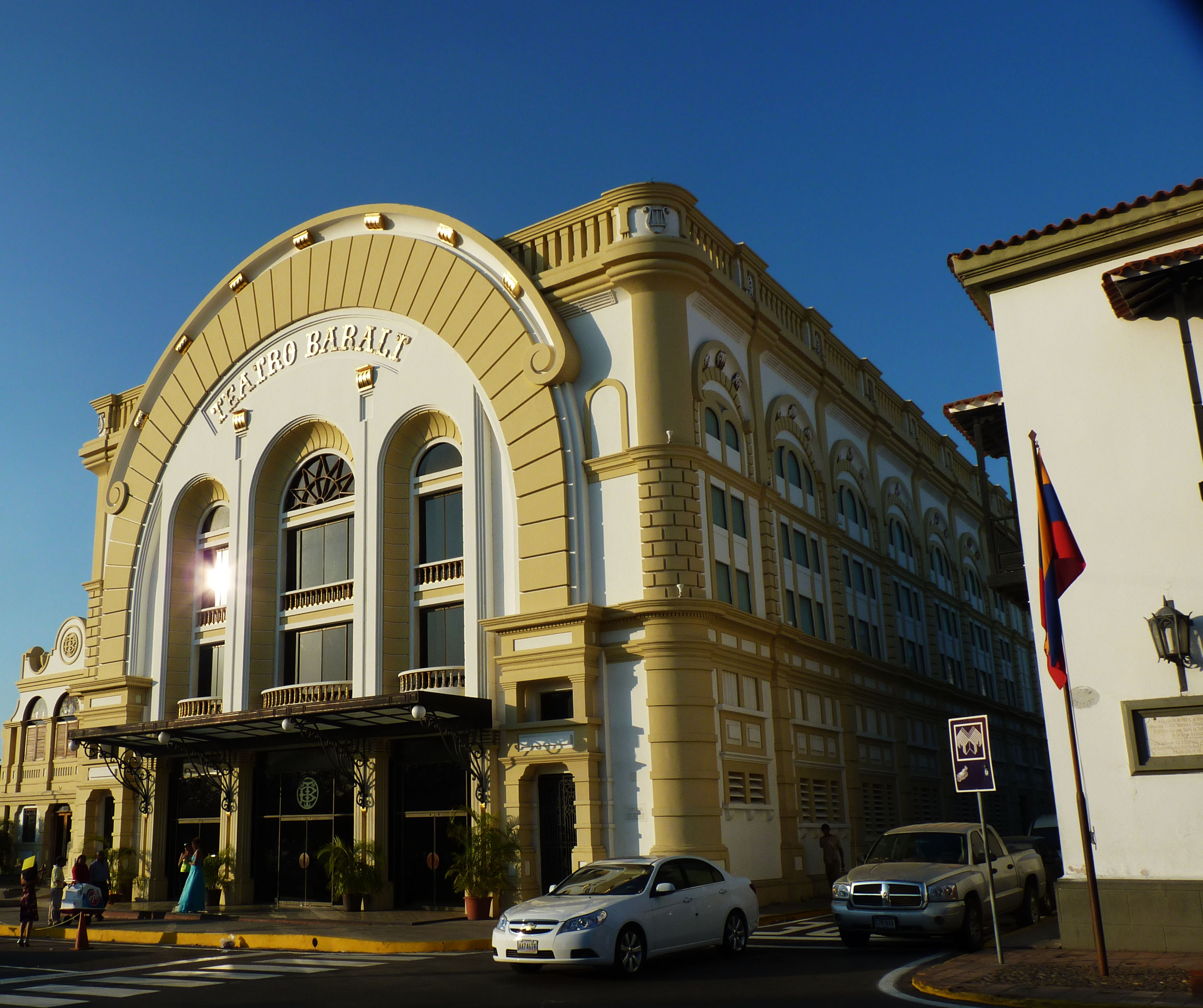 Baralt Teather, Maracaibo, Venezuela.